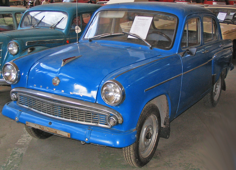 Beschreibung: Moskwitsch 403 (note: probably this is Moskvich 407 or a car with unoriginal parts, because such decoration on a hood was installed on 407s until early 1961 only, while 403 entered production in late 1962. Windshield sprayers might be aftermarket - 403 had a single one) Fotograf: Darkone, 2. Juli 2005